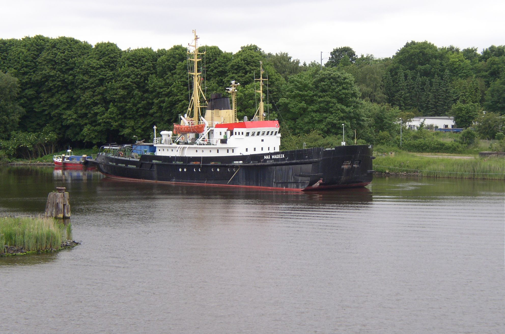 The German icebreaker Max Waldeck in the Kiel Canal close to Rendsburg